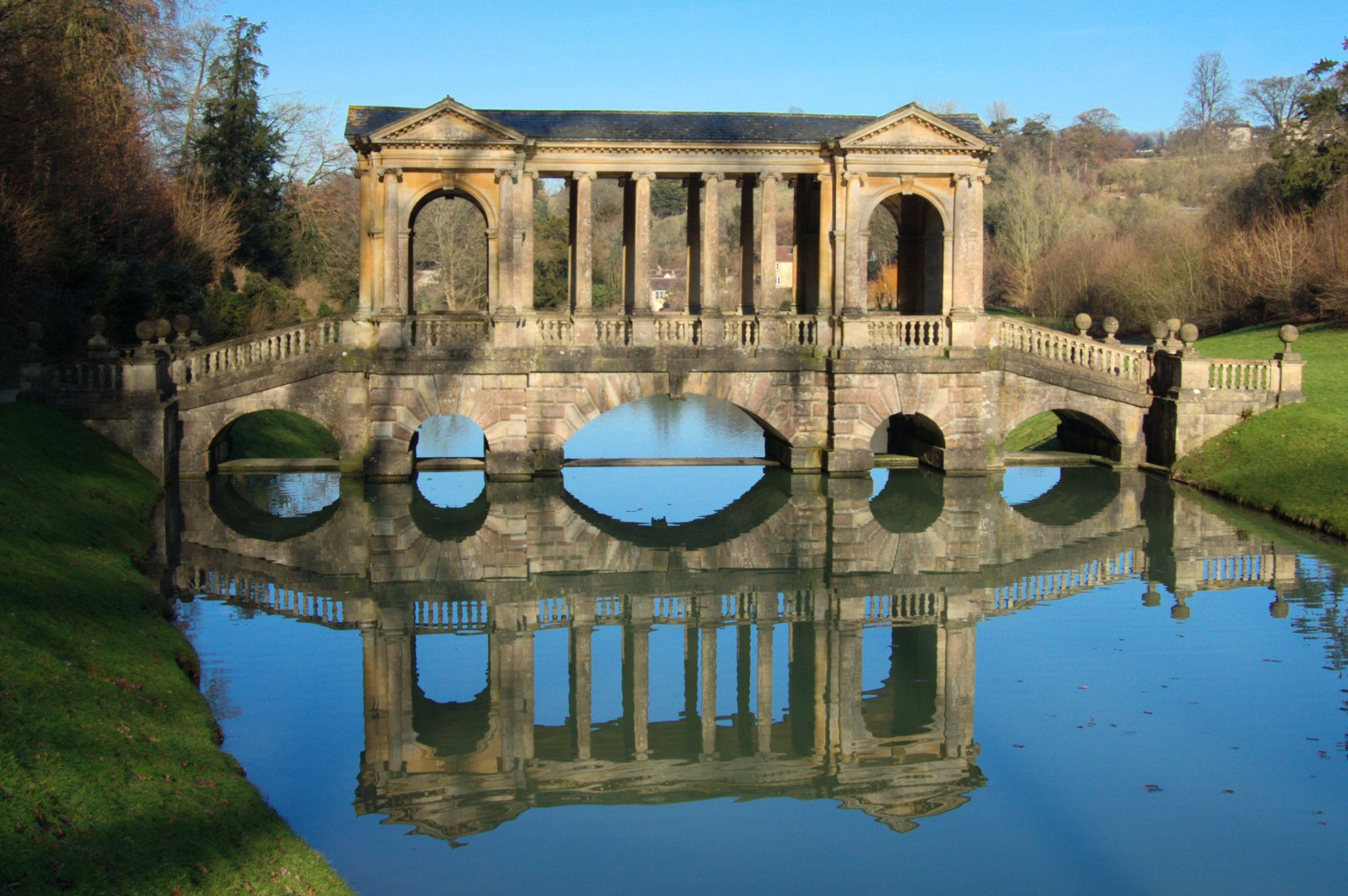 Prior park bridge, in Bath.